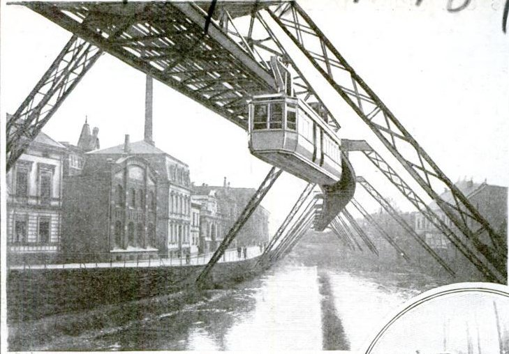 Photograph of the suspension railroad in Elberfeld, German circa 1921